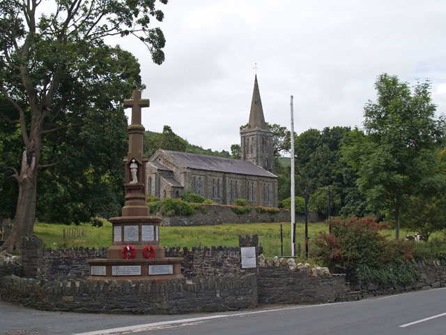 Lezayre church. Kirk Christ ("Christ Church") Lezayre with the war memorial in the foreground